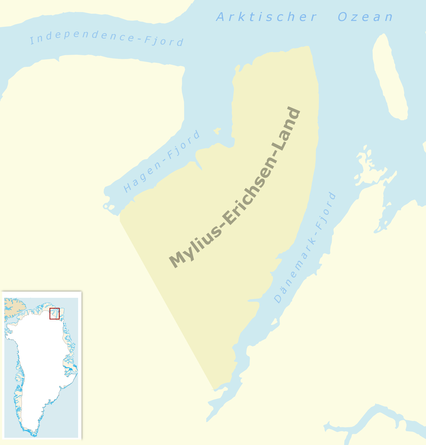 Map of the peninsula Mylius-Erichsen-Land in Northern Greenland